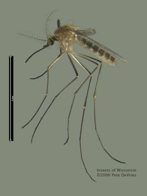 Culex pipiens